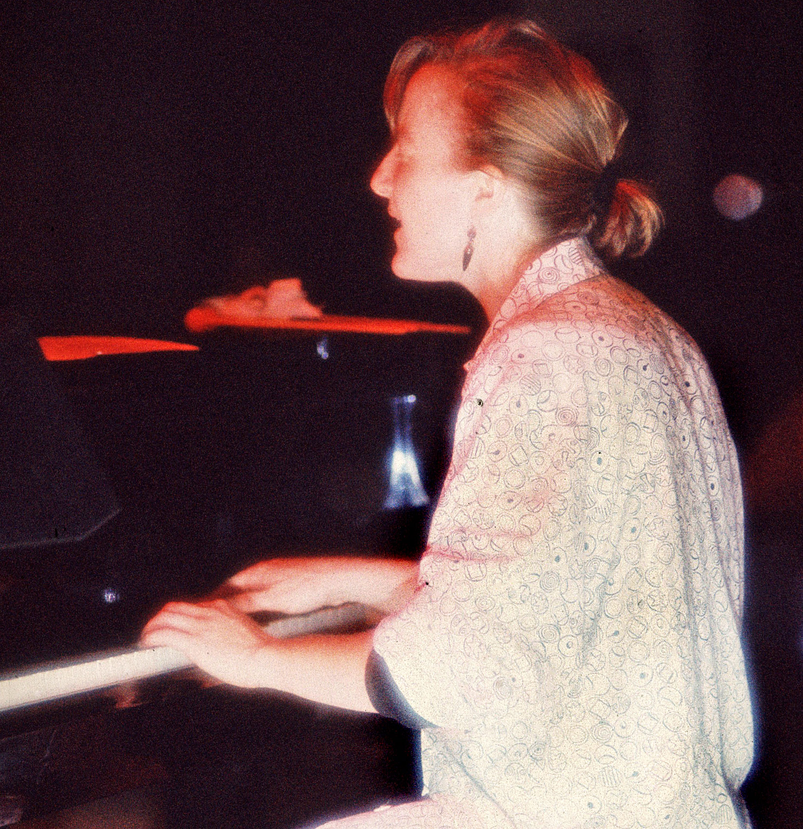 Jazz pianist Myra Melford at Jumo Jazz Club, Helsinki, Finland, 1993.